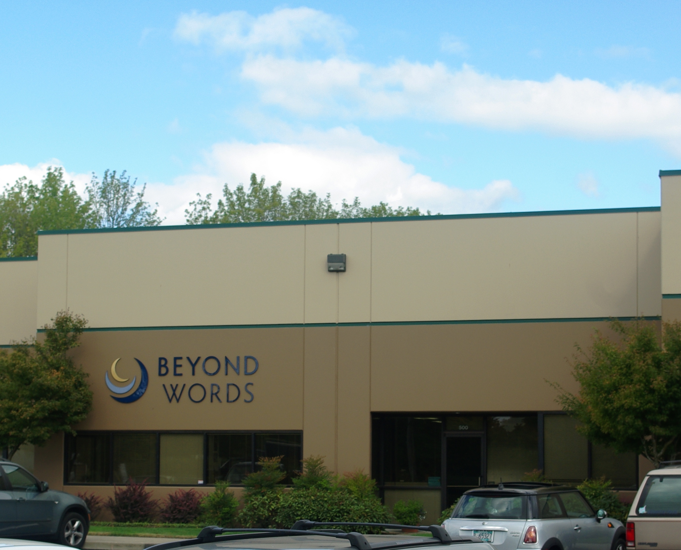 Beyond Words Publishing office in Hillsboro, Oregon, USA